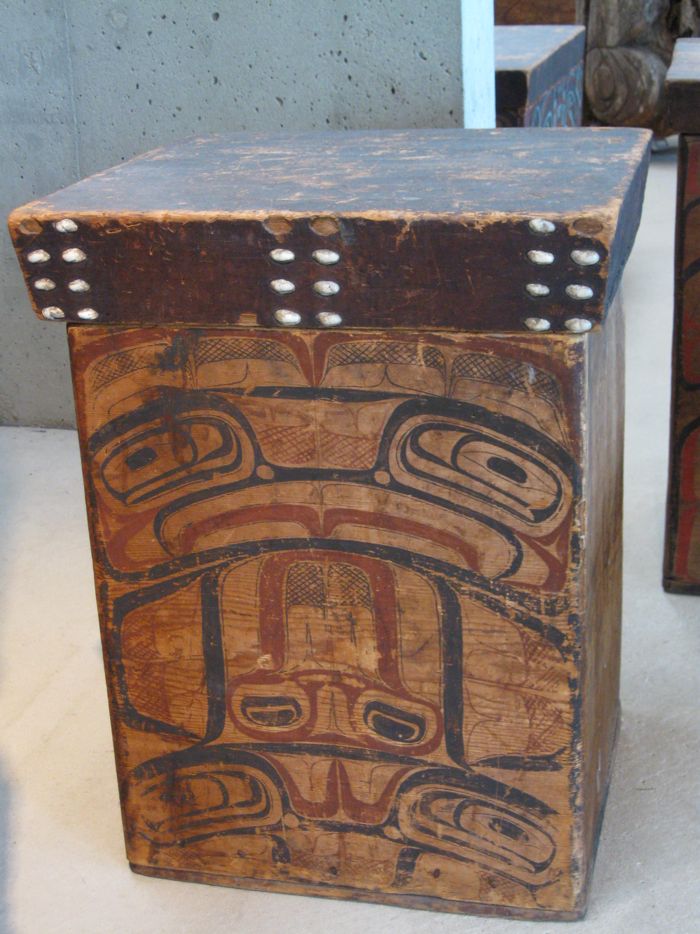 This Tsimshian Bentwood box dates from 1850. It is painted with a natural pigment: a dark red hematite or iron oxide. Found in Port Simpson, BC, it was used for centuries by BC's Northwest coast native Indians. It is now located at UBC's Museum of Anthropology in Vancouver, Canada.